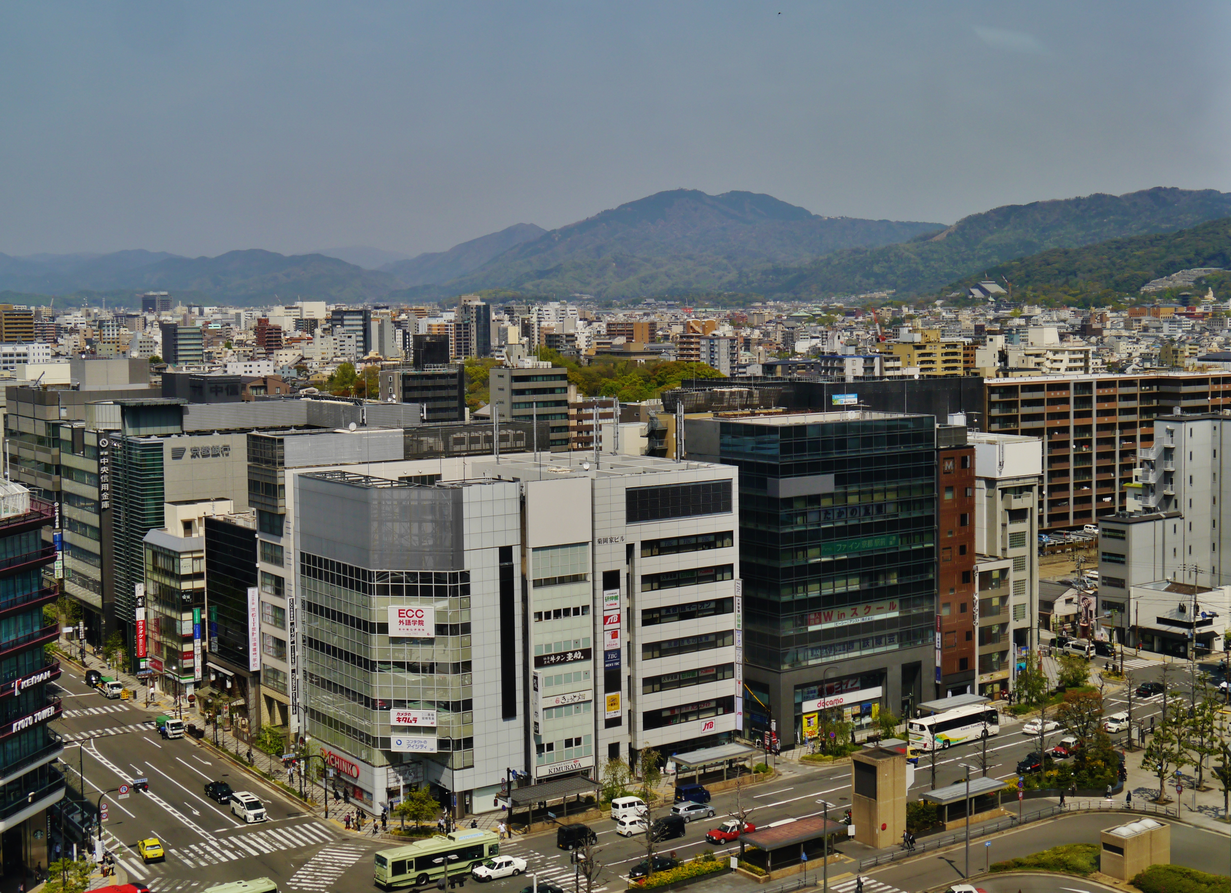 View from Kyoto Station over the City, Kyoto, Kyoto Prefecture, Kinki Region, Japan